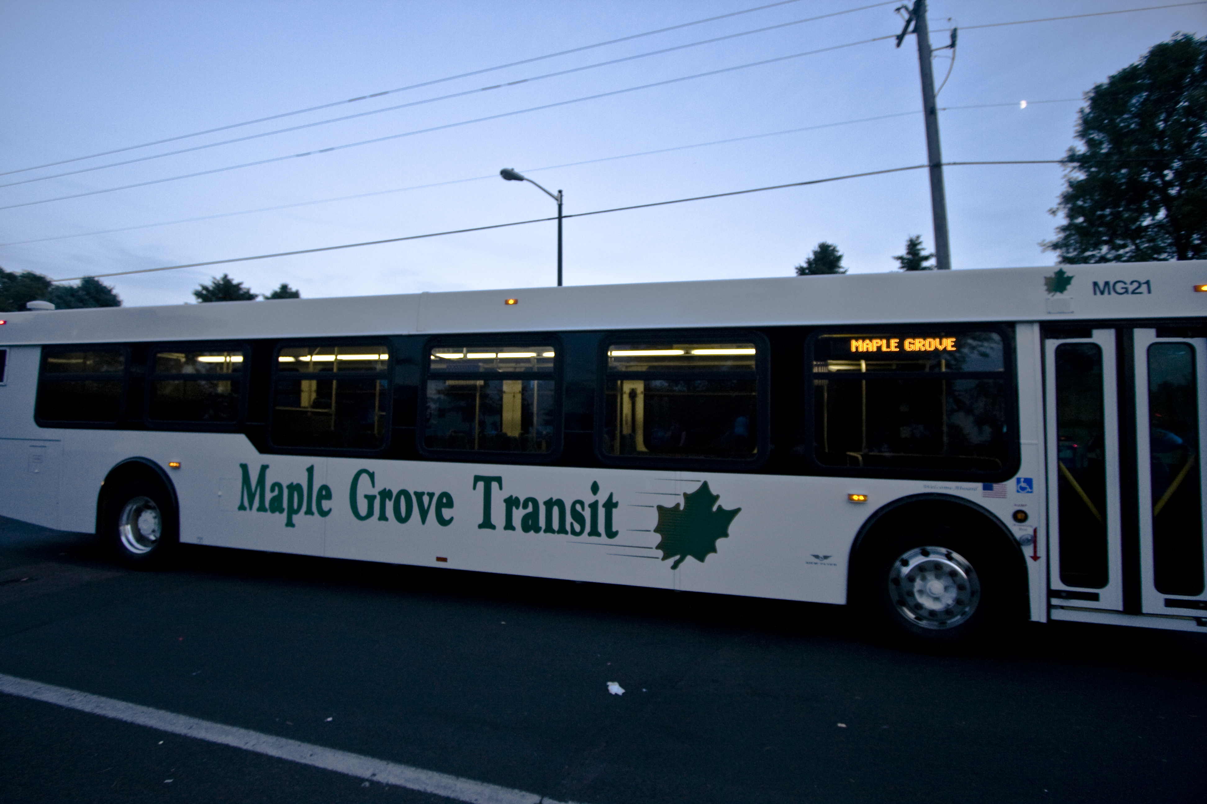 A Maple Grove Transit bus in 2008 in Maple Grove, Minnesota.